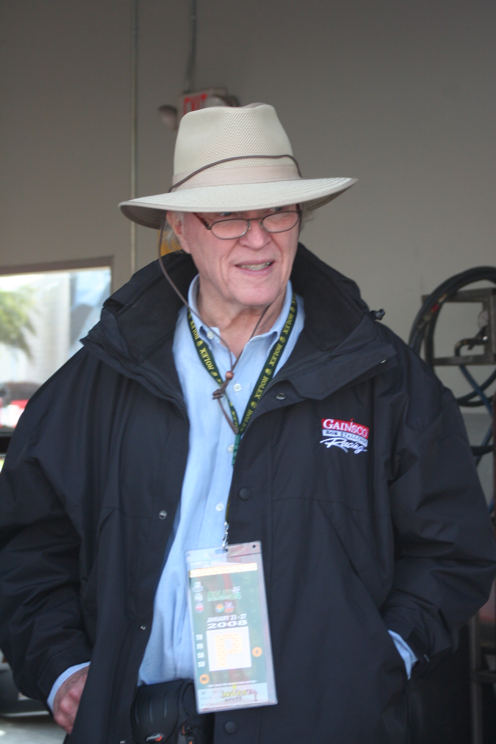 American racecar legend Dan Gurney, shot by "The Daredevil" at the 2008 Rolex 24 Hours of Daytona event.